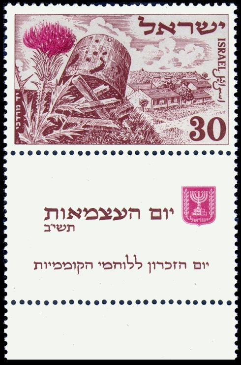 Forth Independence Day stamp - 30 mil. Inscription: "Yad Mordechai". Inscription on tab: "Independence Day 5712", "Memorial Day for the Fighters for Independence"